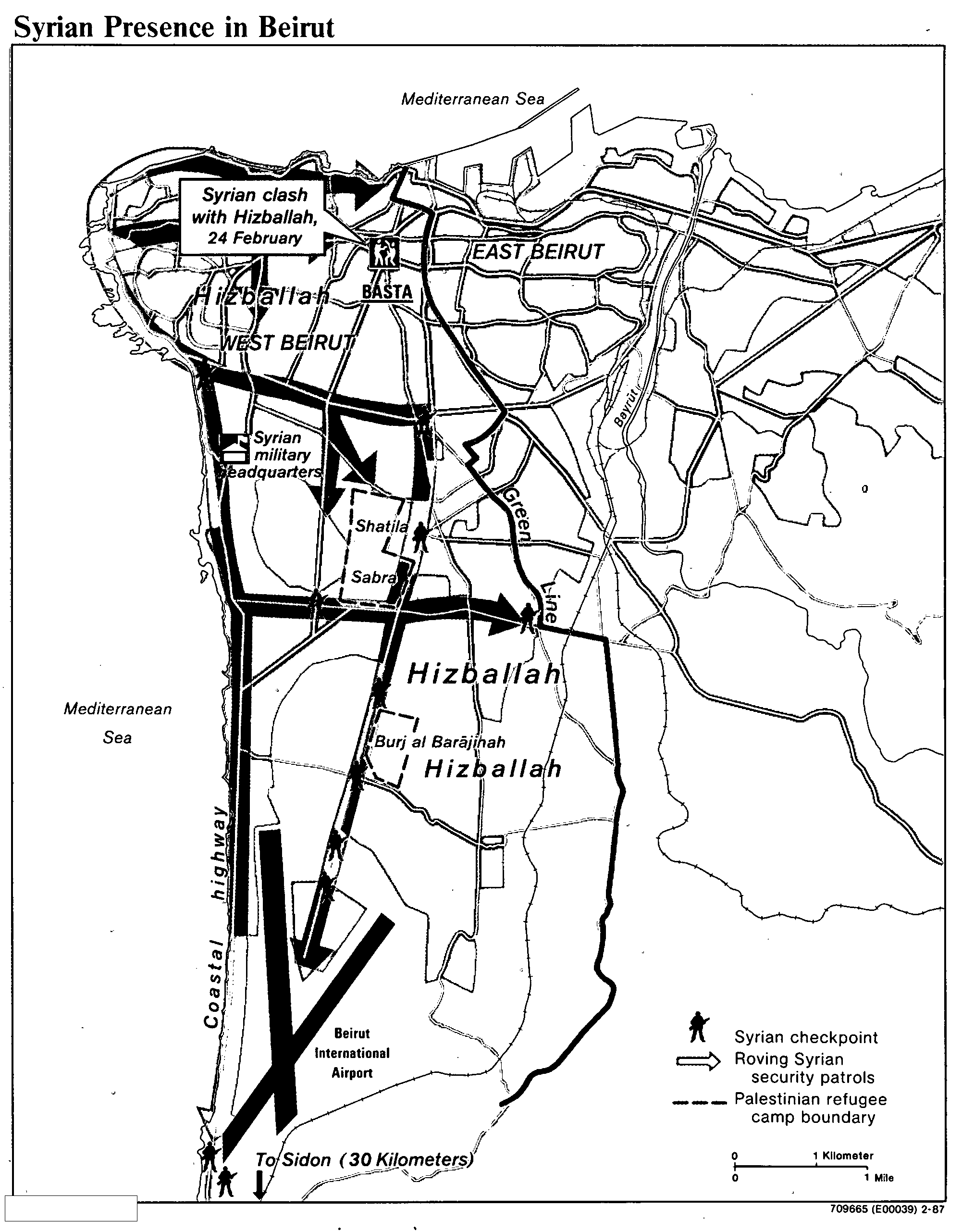 A CIA map of Syrian and Hezbollah presence in Beirut on 26 February 1987.